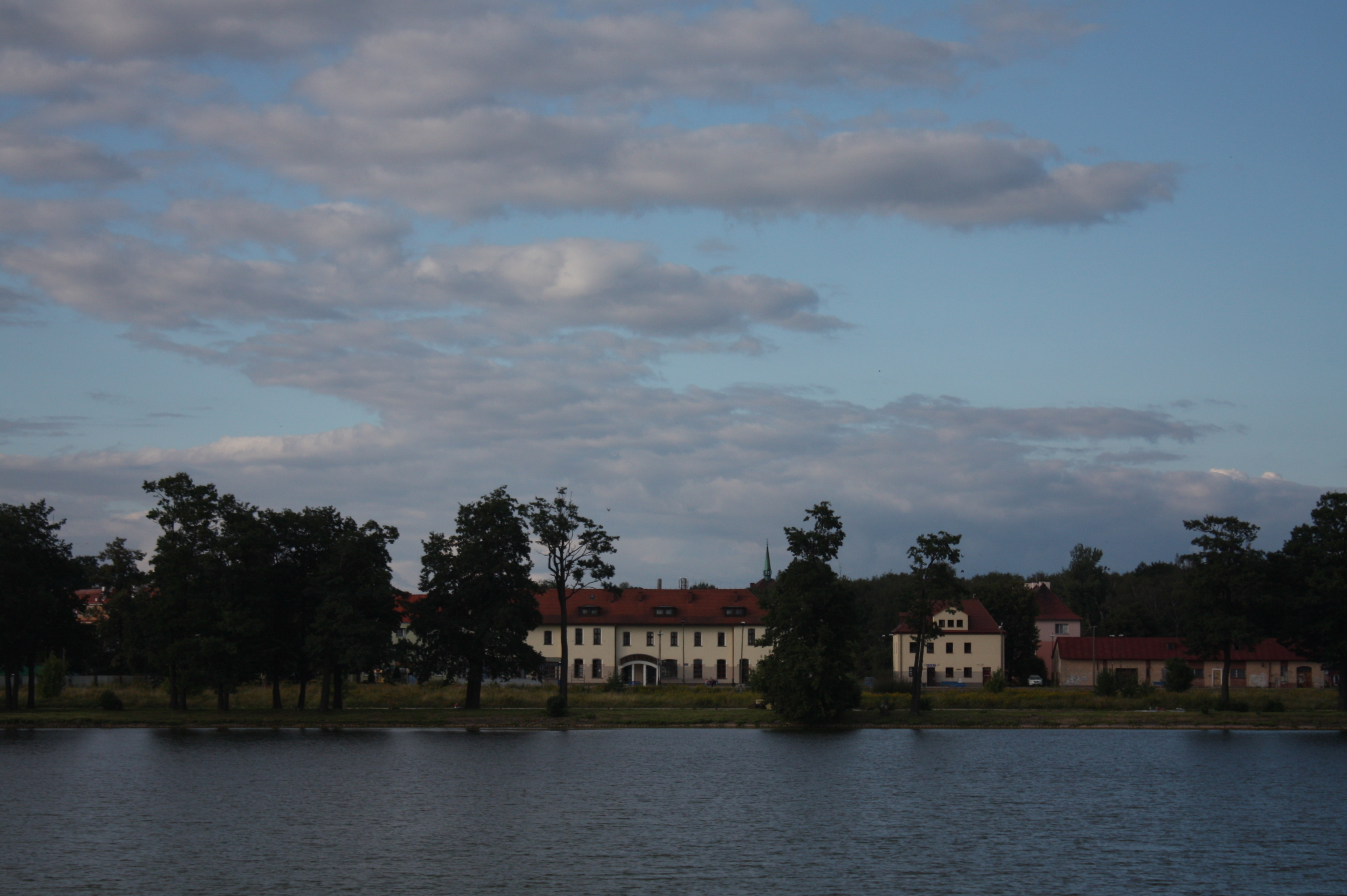 This photo of Warmian-Masurian Voivodeship was taken during Wikiexpedition 2012 set up by Wikimedia Polska Association. You can see all photographs in category Wikiekspedycja 2012. The making of this document was supported by Wikimedia Polska.